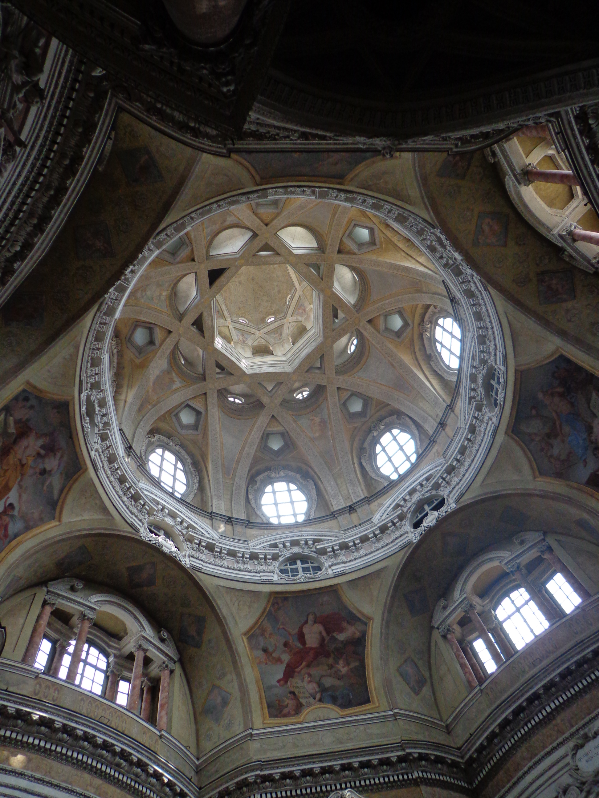 A few pictures taken in Turin, Italy, July 2014